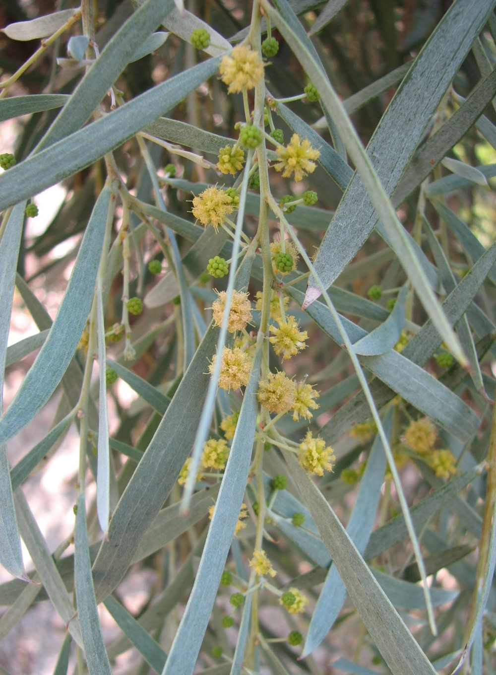 Acacia pendula — Weeping Acacia tree, foliage. Maranoa Gardens, Balwyn, Victoria, Australia.